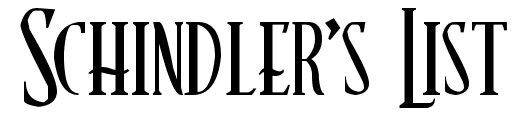 Text logo for the film Schindler's List (1993), written in a font similar to the one used for the official movie poster.